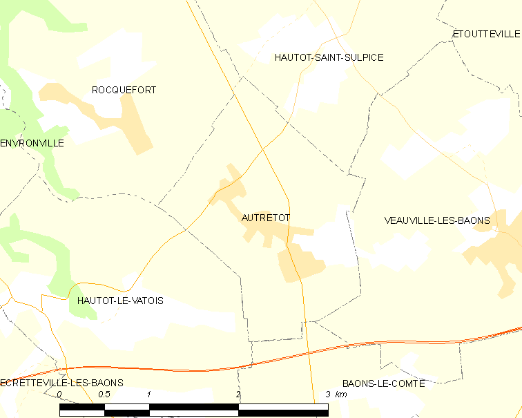 Map of French municipality Autretot